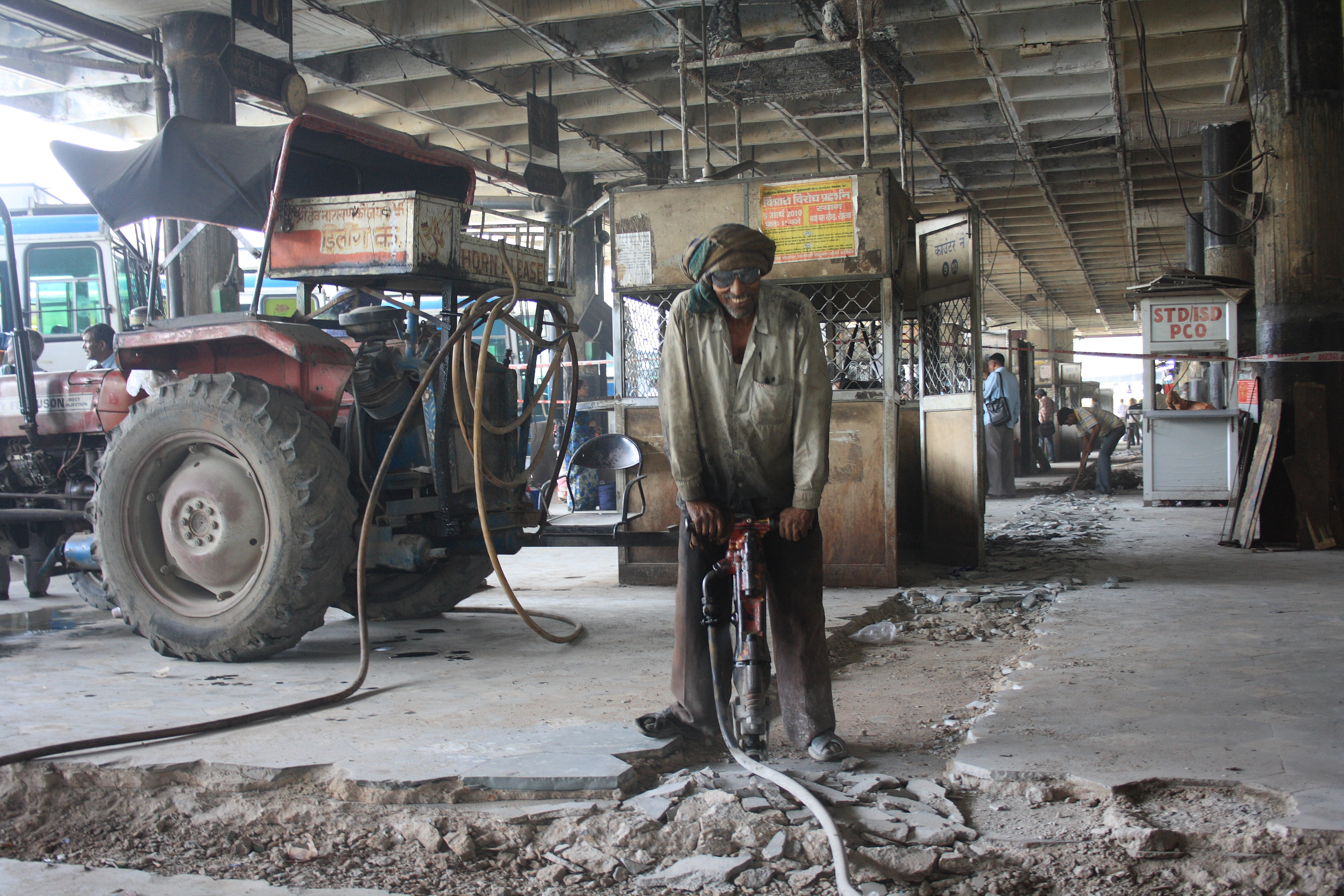 A construction worker wearing a turban, working with a jackhammer at Kashmere Gate Bus Terminal, Delhi, India. The air compressor is on the tractor on the left in the background.